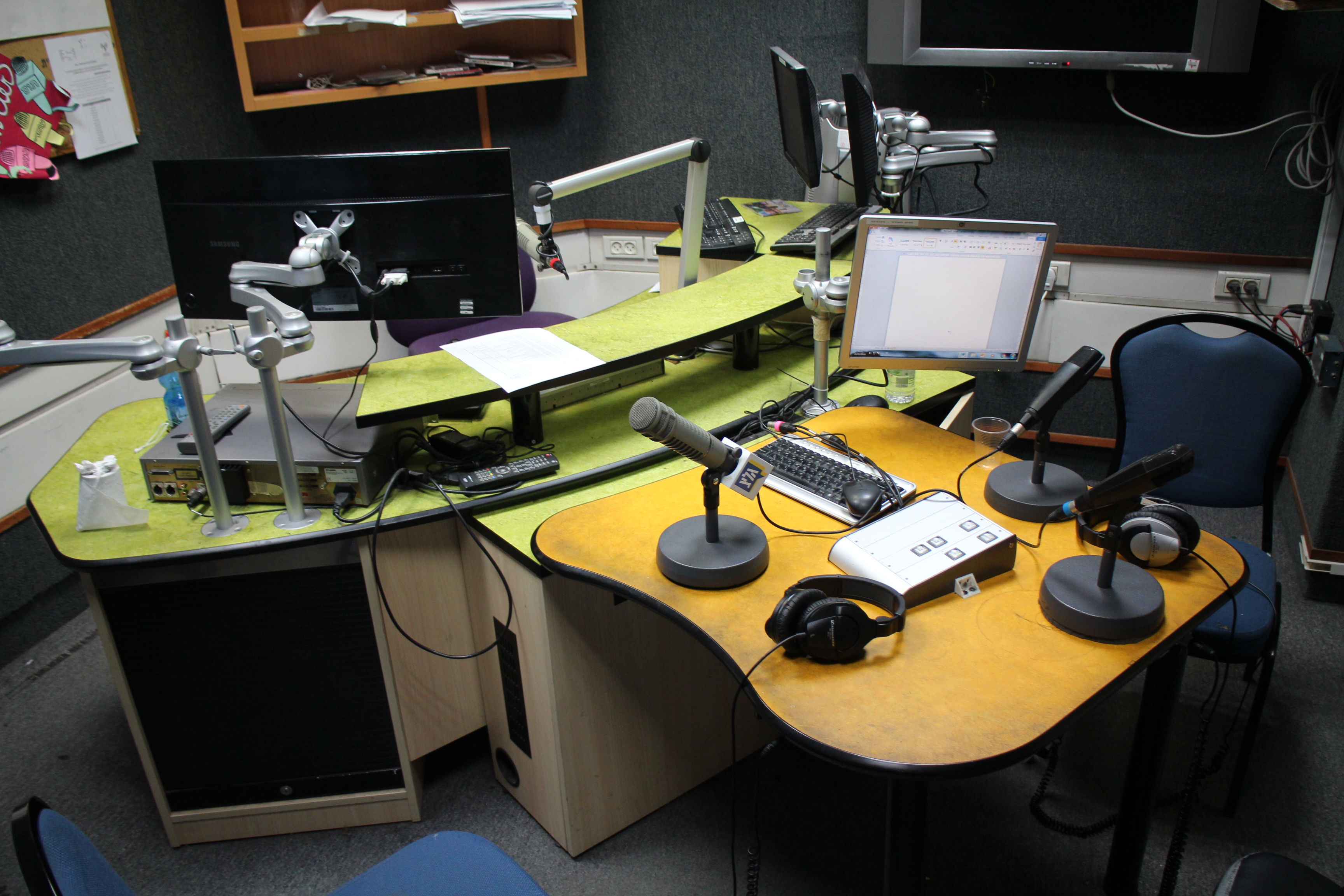 Studio E, named after Uri Orbach, a former broadcaster in Galei Tzahal.